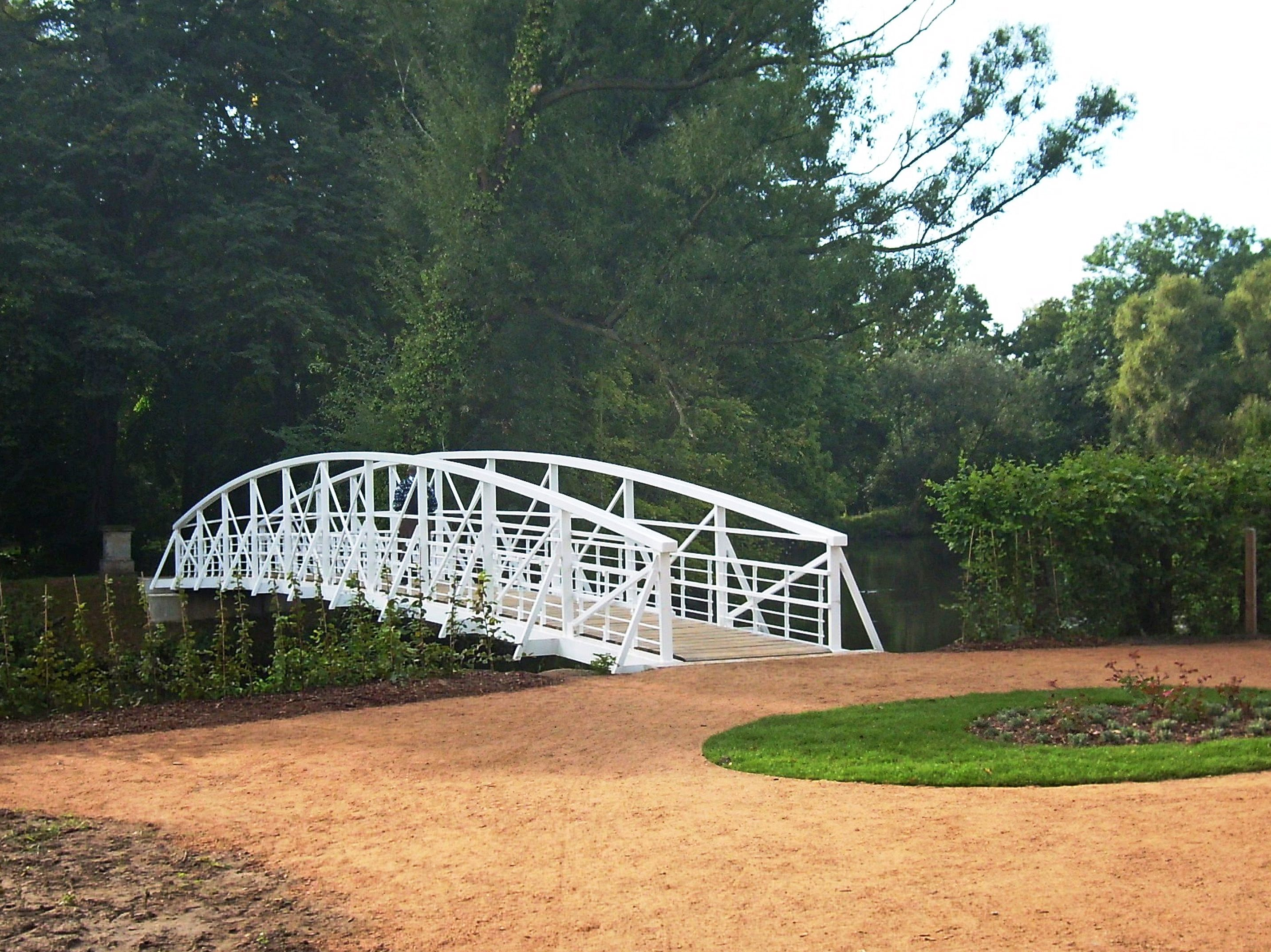 White Bridge leading to the gardens of Lützschena Castle (Leipzig, Saxony)